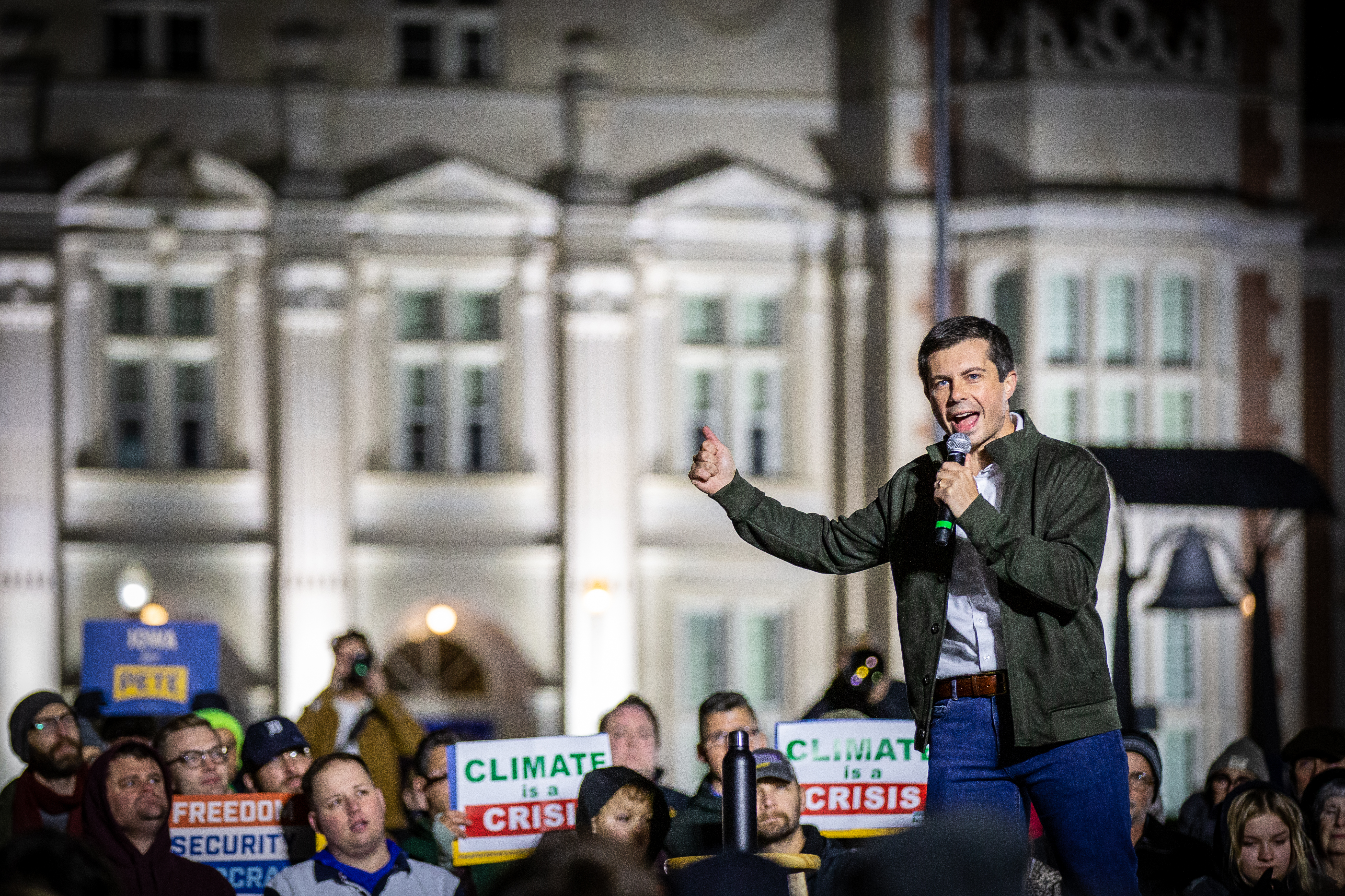 Mayor Pete Buttigieg held a town hall meeting for his presidential campaign on the front lawn of Roosevelt High School in Des Moines. More than 700 turned out on a crisp October night.